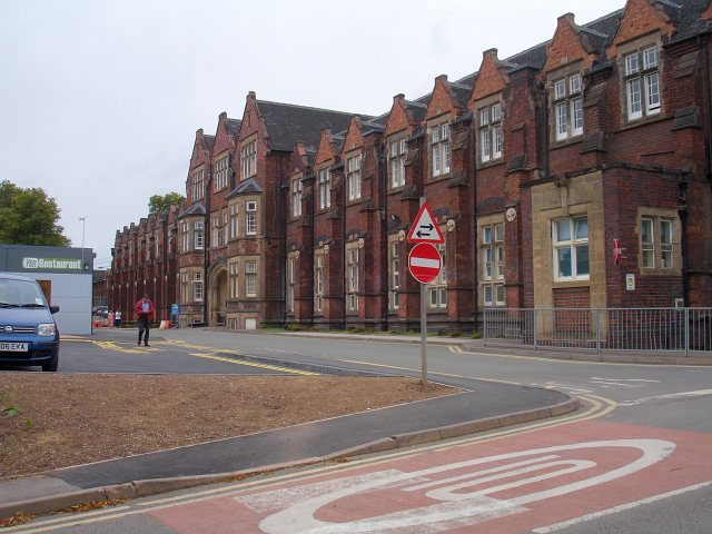 City General Hospital, Stoke on Trent, near to Newcastle-Under-Lyme, Staffordshire, Great Britain. One of the older buildings on the hospital site. The hospital is currently undergoing regeneration. The restaurant on the left is housed in a huge temporary building sited on what used to be a car park.